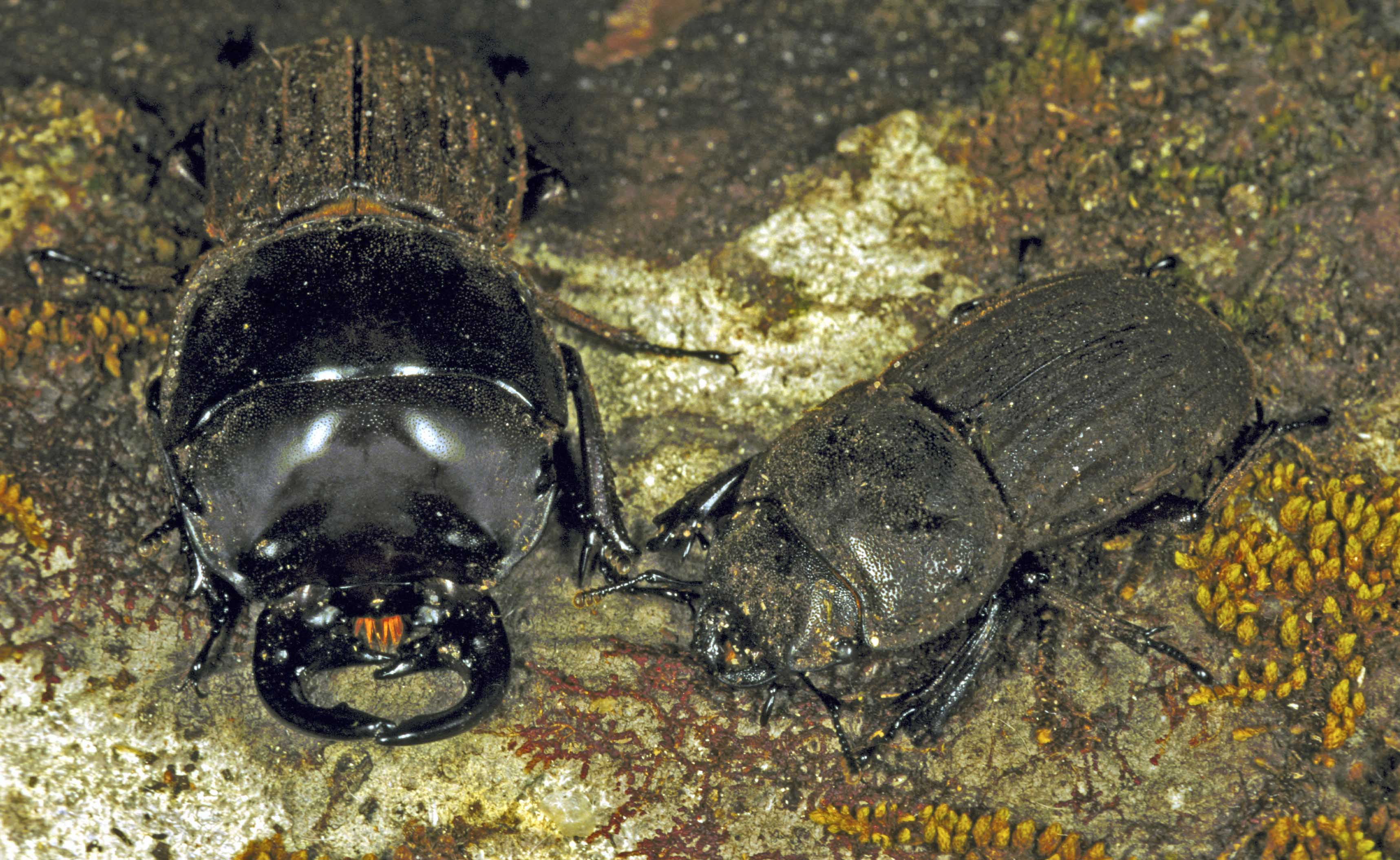 Helms's stag beetle (Geodorcus helmsi) Male (left) and female (right) demonstrating sexual dimorphism. Fiordland. John Marris. Lincoln University.